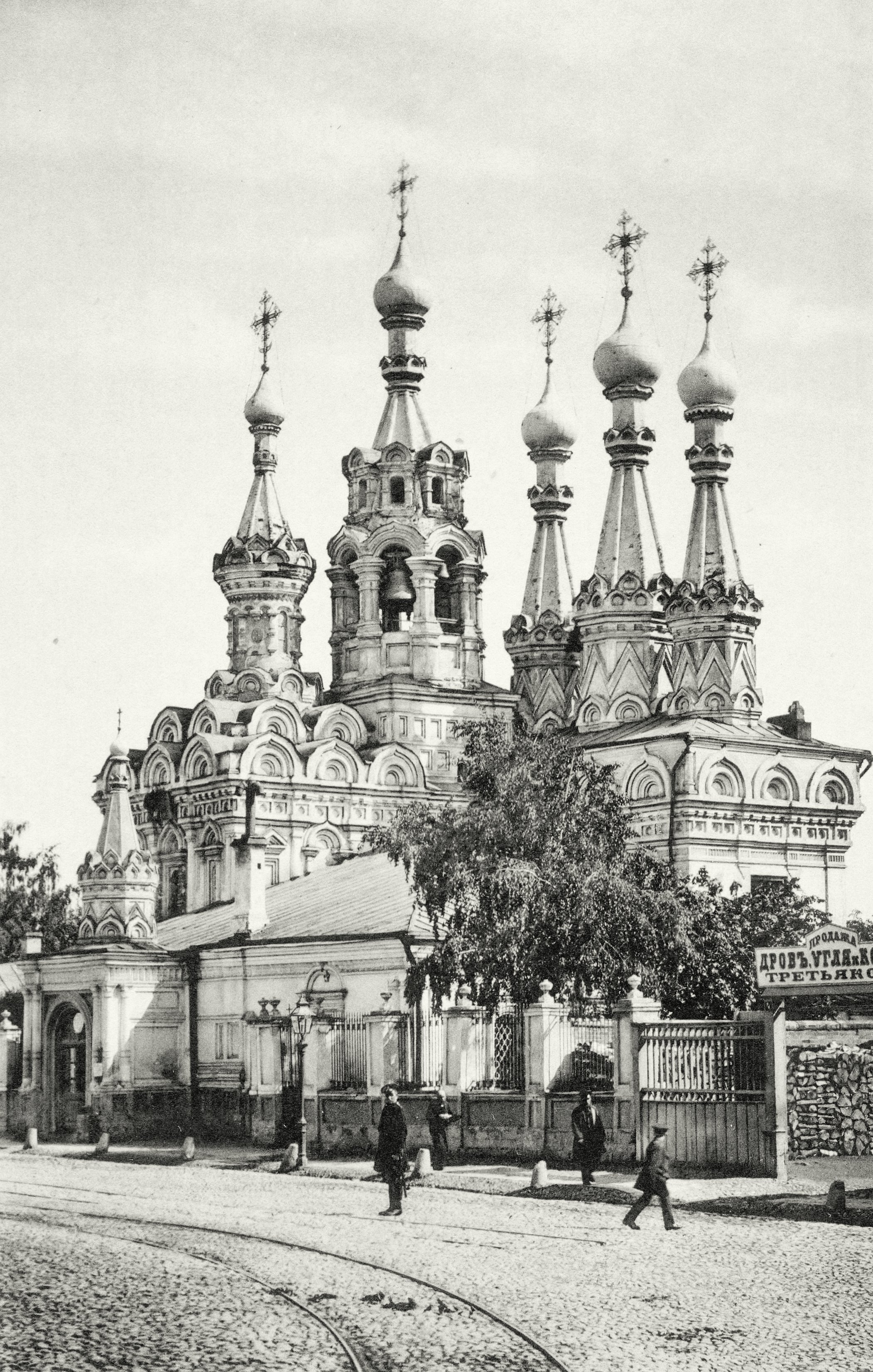 Church of the Nativity of the Theotokos at Putinki (early 1900s)